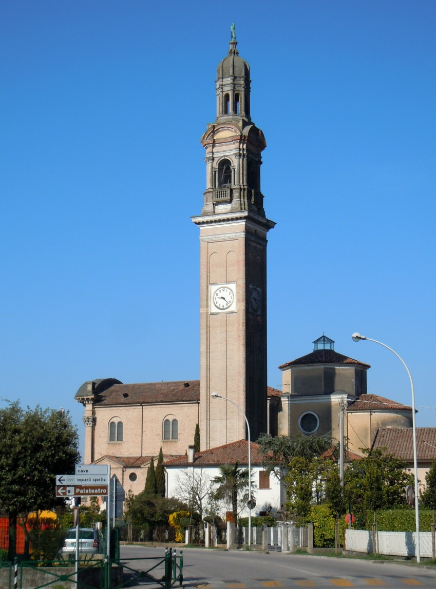 Fontane chiesa nuova